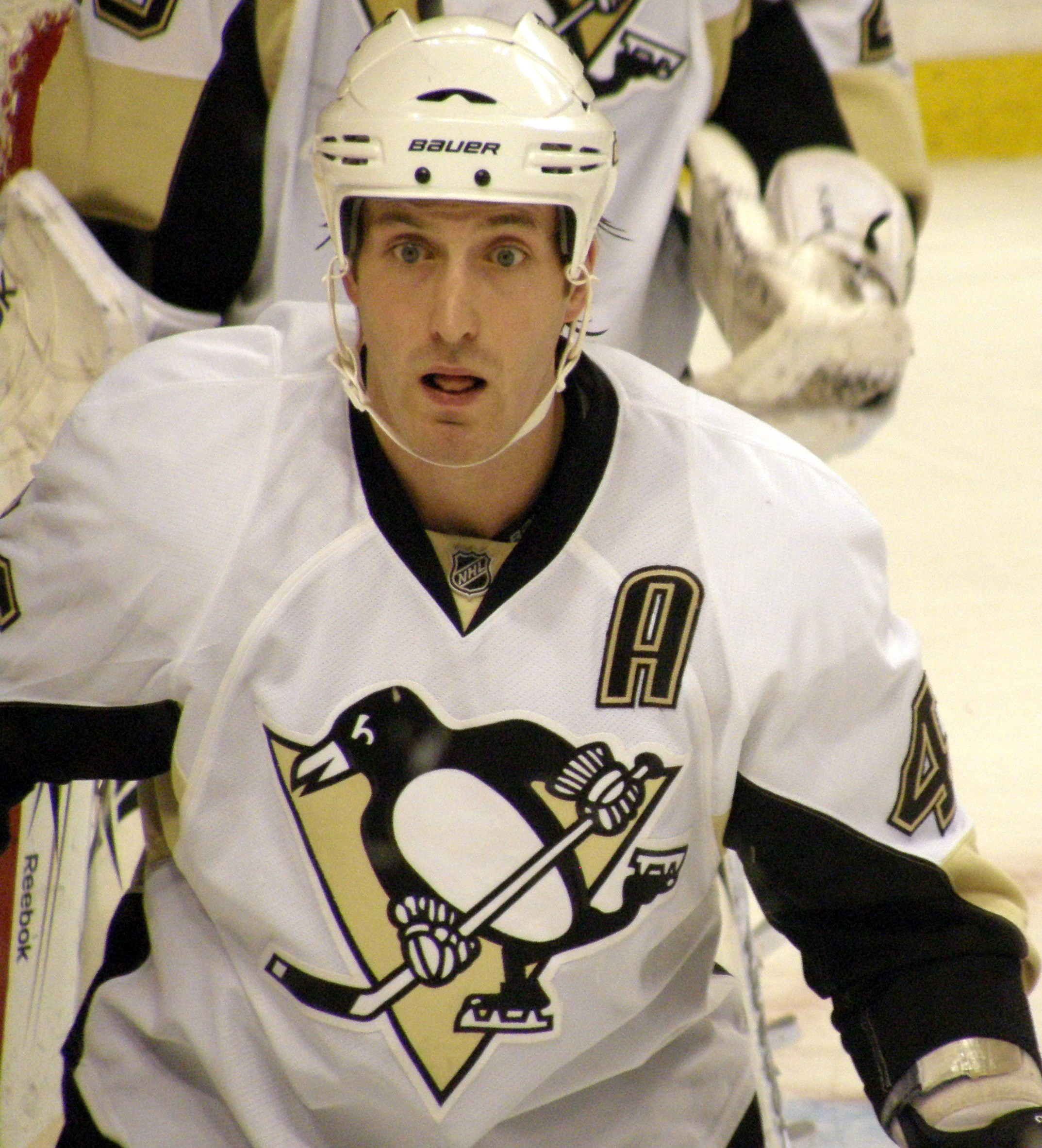 44, Brooks Orpik, D, PIT, showing us his surprised face. Pittsburgh Penguins at (vs) Boston Bruins, TD Banknorth Garden (Boston Garden), March 18, 2010